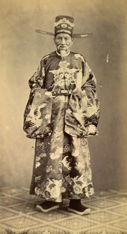 The photo was taken in Paris in 1863 on the occasion of Phan Thanh Gian leading a delegation to France to seek the repatriation of three provinces of southern Vietnam that had been seized by France.